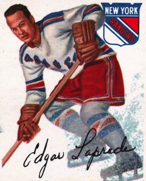 Edgar Laprade